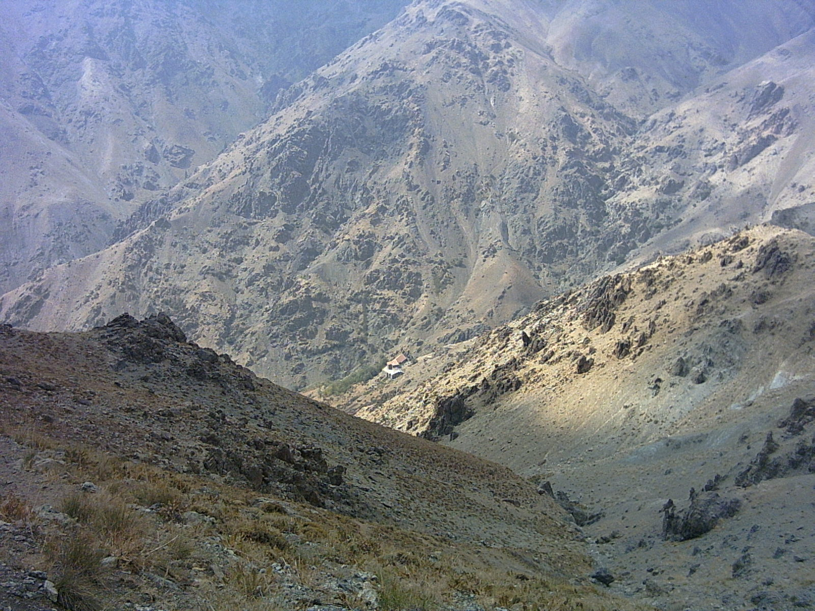 Palangchal from Tochal station #5, Tehran, Iran